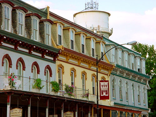 Lebanon Illinois Image Taken By Ralph Moran